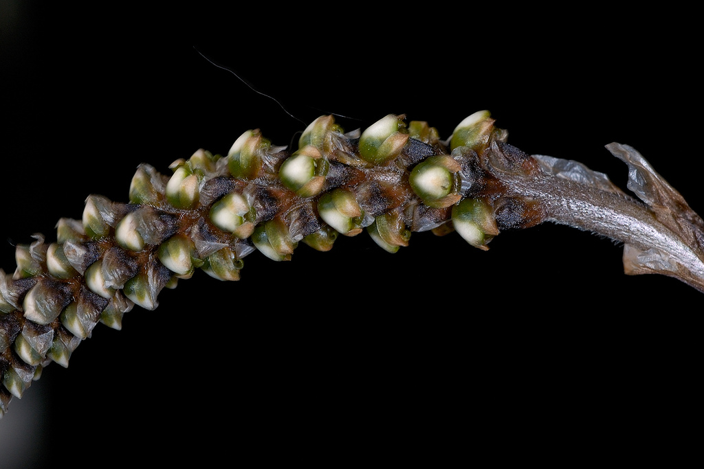 Photographed in the high Andes surrounding Cusco, Peru